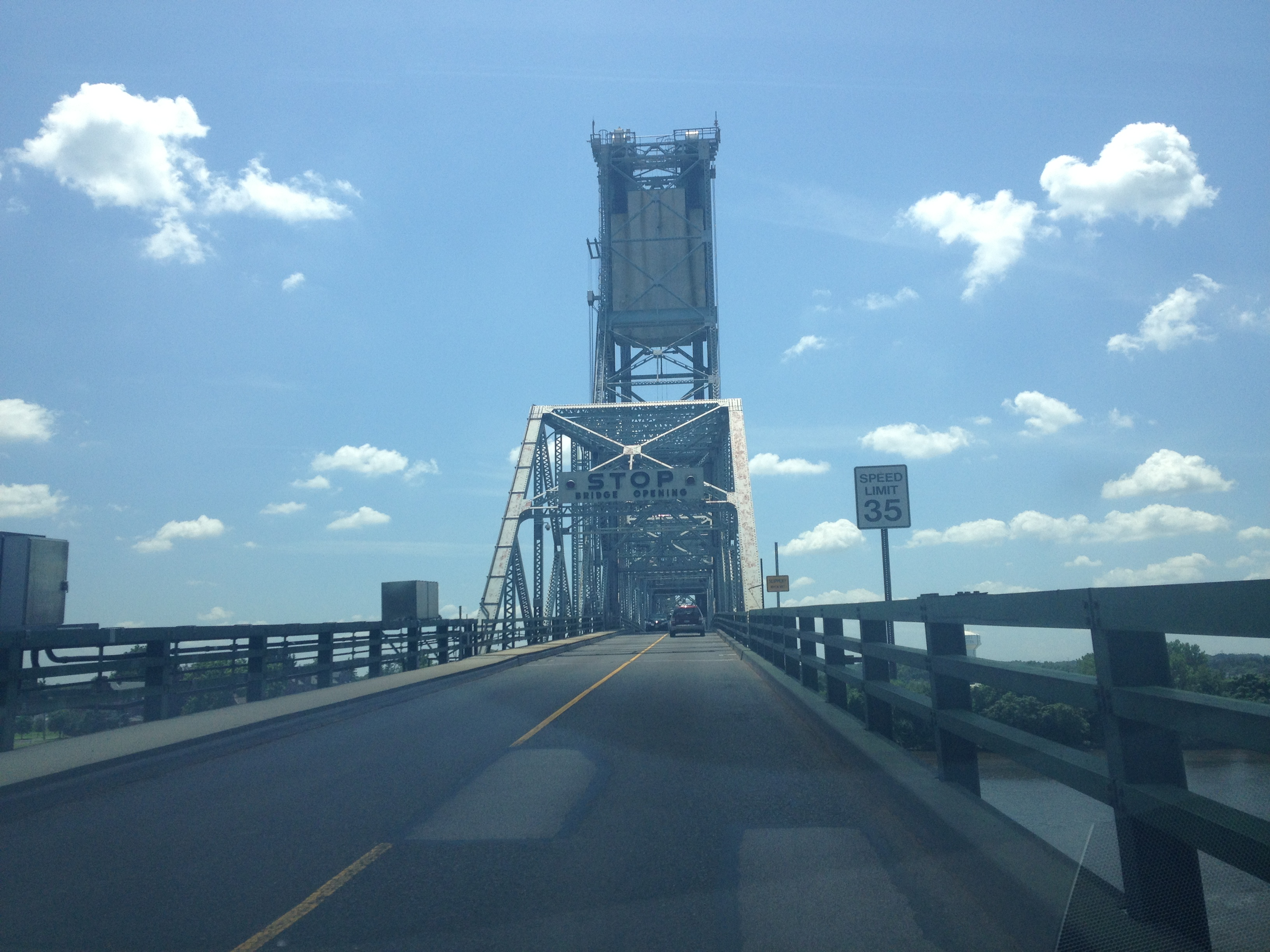 The Burlington-Bristol Bridge heading south over the Delaware River from Bristol, Pennsylvania to Burlington, New Jersey